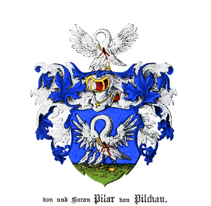 Coat of arms of Pilar von Pilchau family.